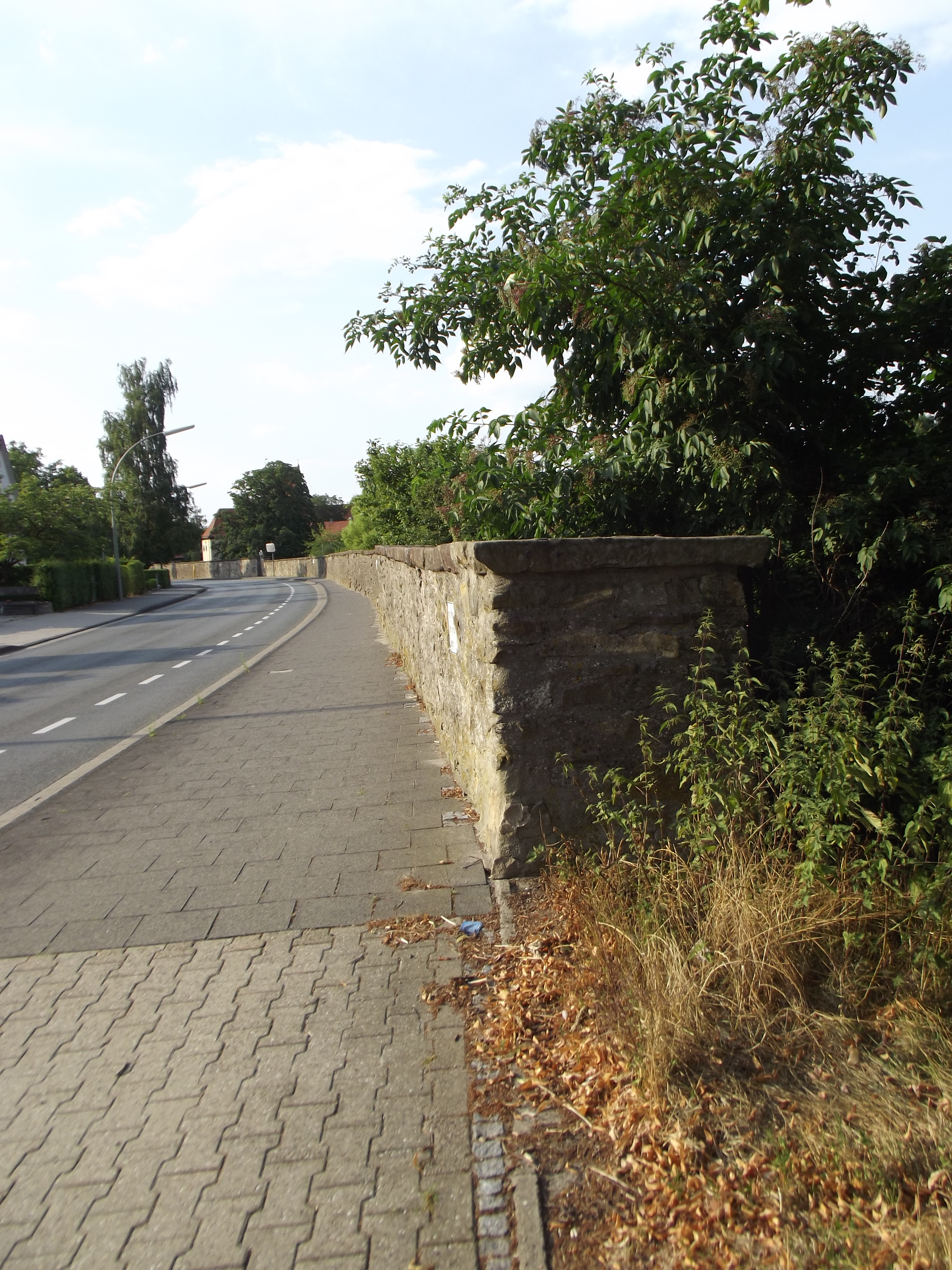 Steinfurt Commandry wall (Order of Knights of St. John of Jerusalem) at town entry